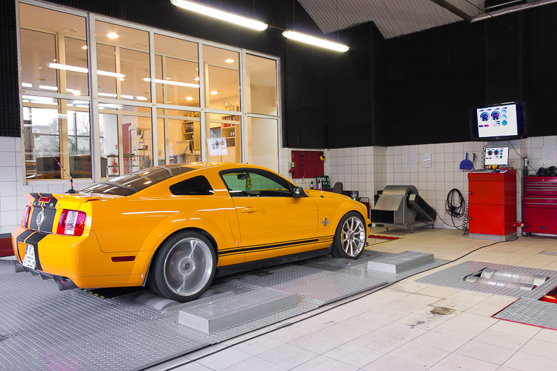 Typical 4x4 dynamometer, while testing torque and power of car.